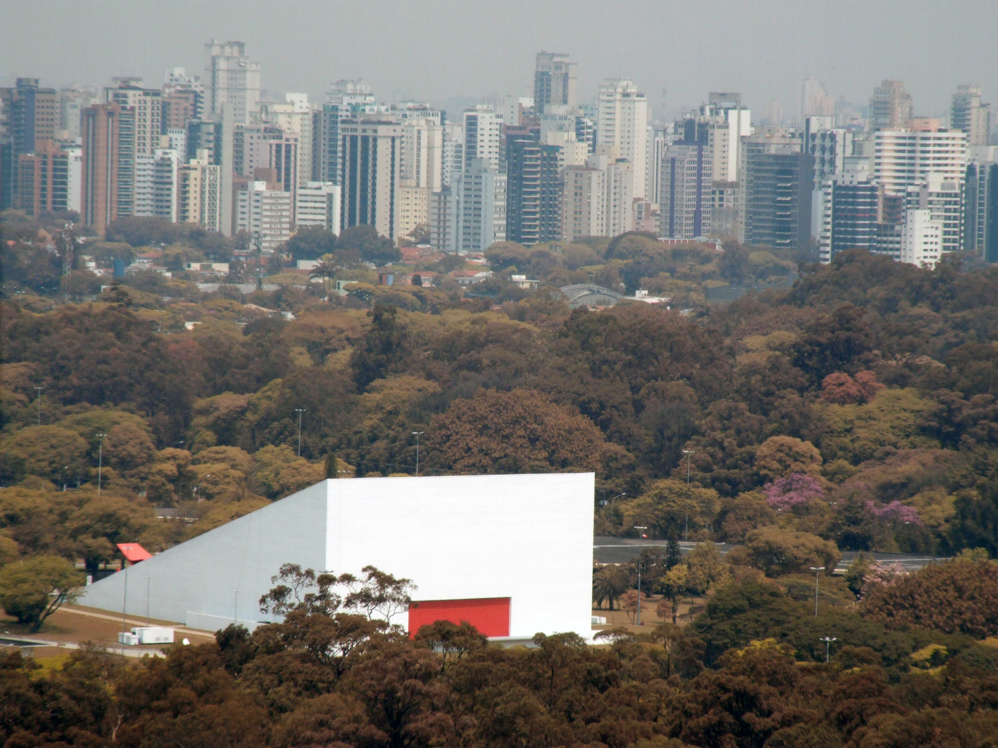 Obra de Oscar Niemeyer